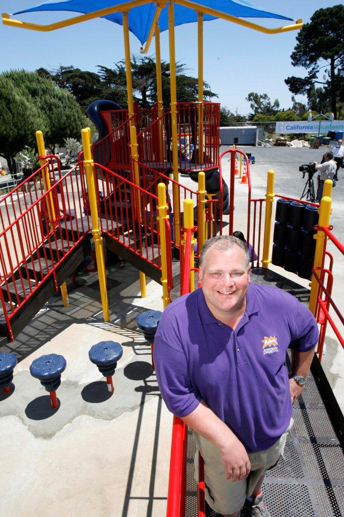 A photograph of KaBOOM! founder Darell Hammond on a playground structure. Event was in San Francisco at Bret Harte Elementary School